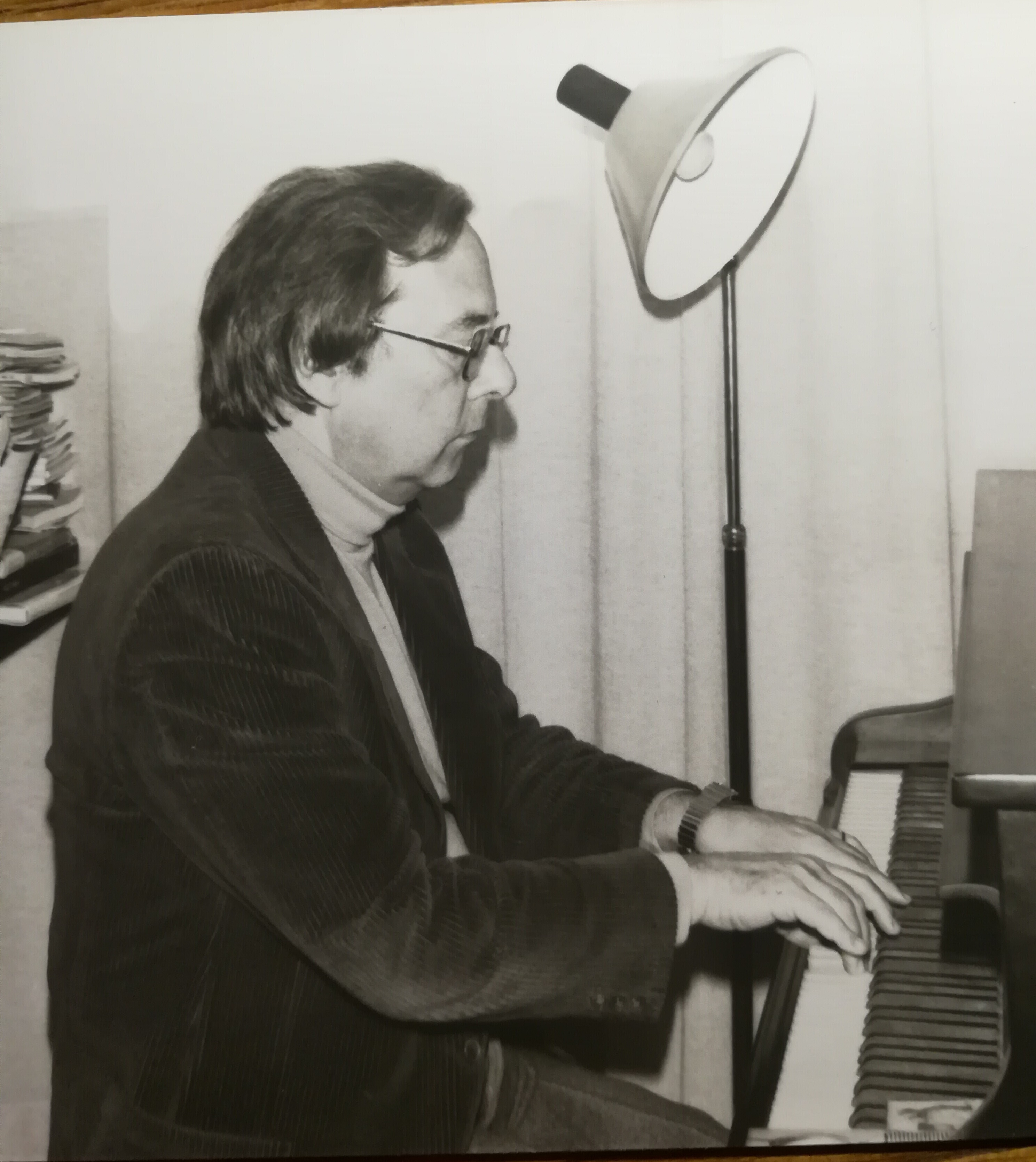 pianist Bruno Mezzena in the study room-Trento